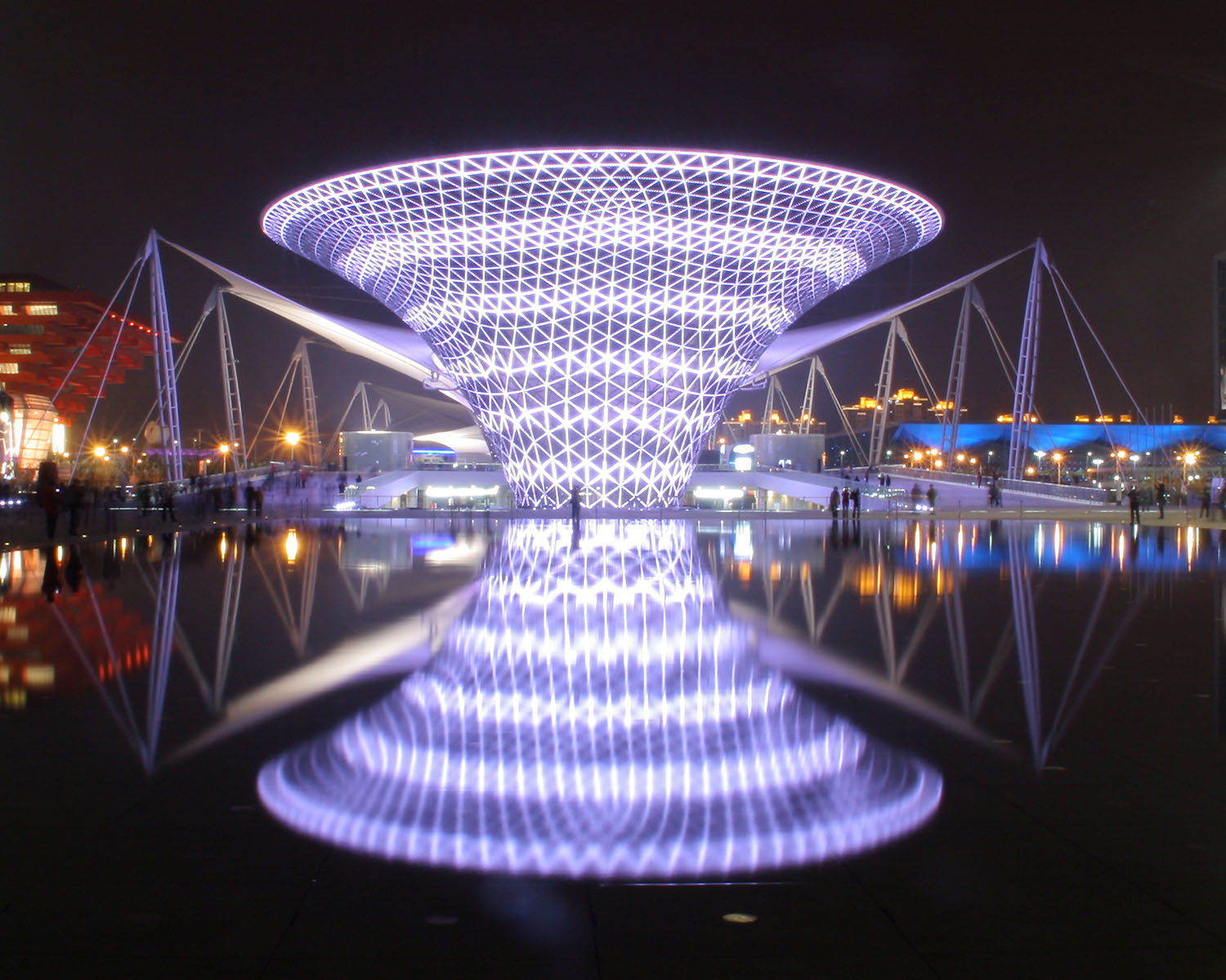 Expo Axis in the nighttime